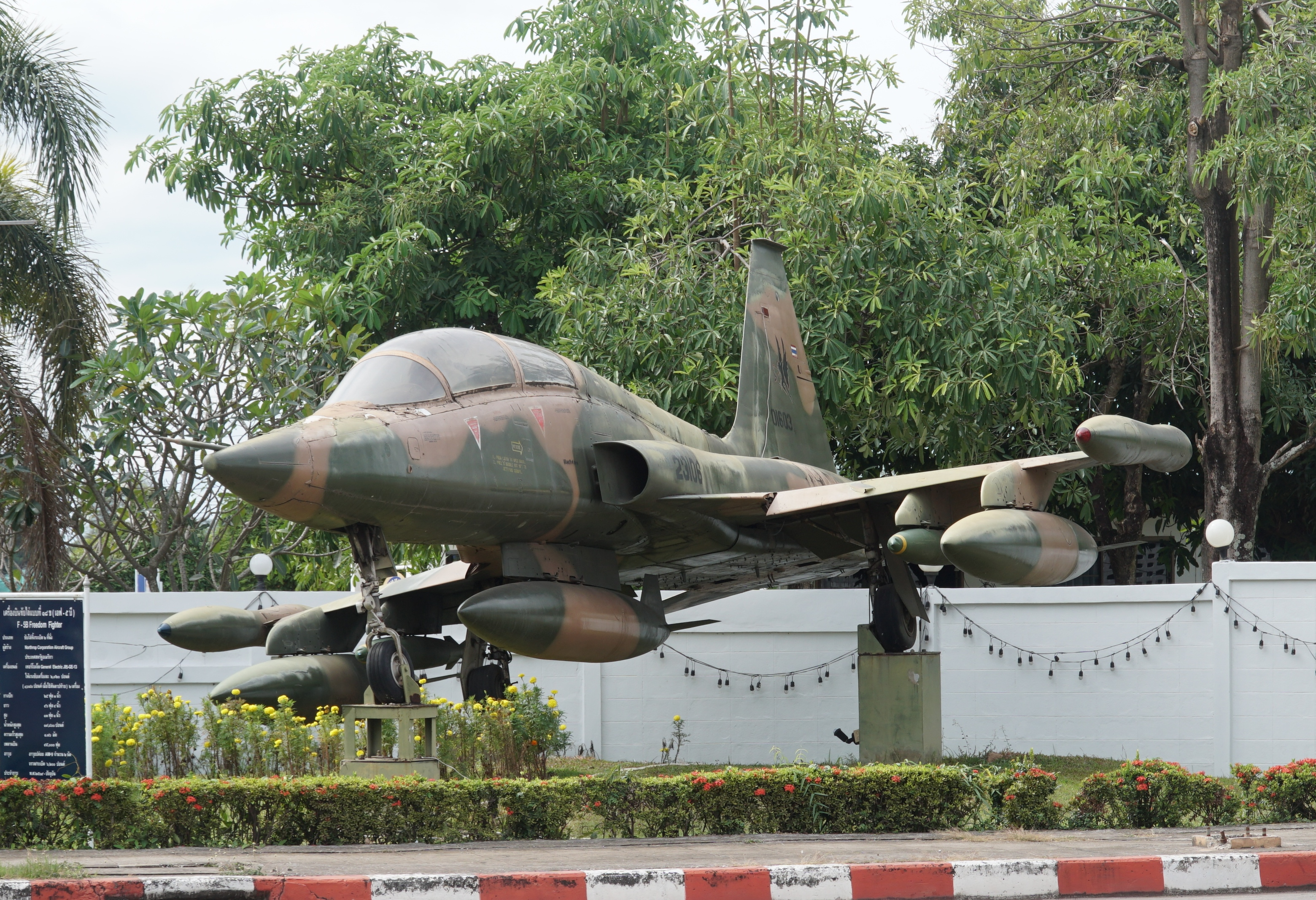 A retired F-5B Royal Thai Air Force in front of wing 23 gate Udon Thani International Airport